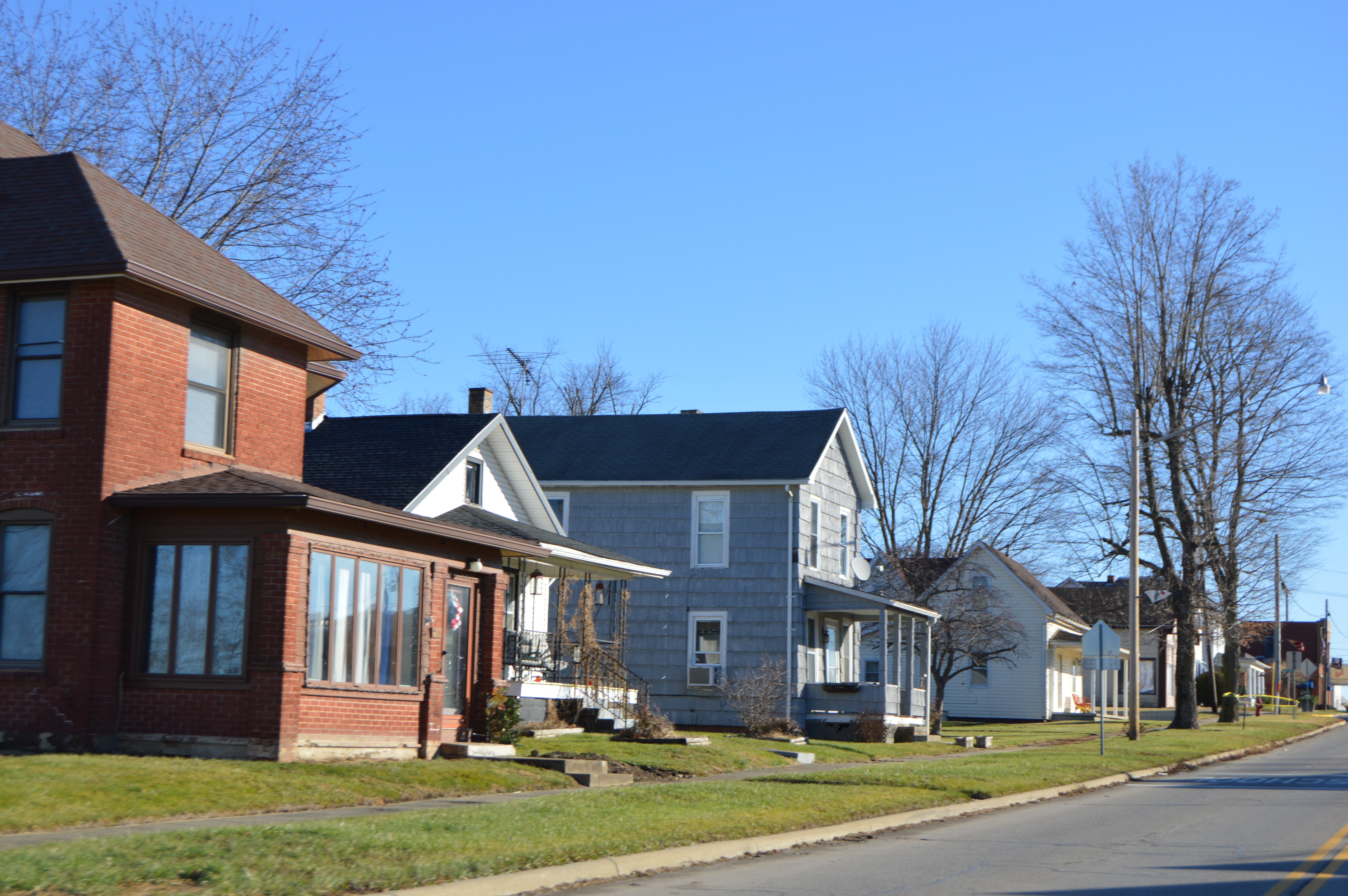 Houses on the northern side of Main Street (State Route 37) east of Court Street in Junction City, Ohio, United States.